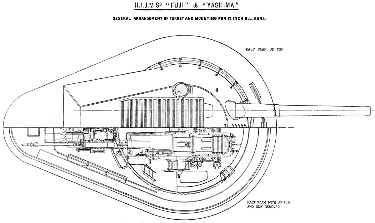 Plan diagram of 12-inch 40-calibre gun turret of Japanese Fuji class battleship.